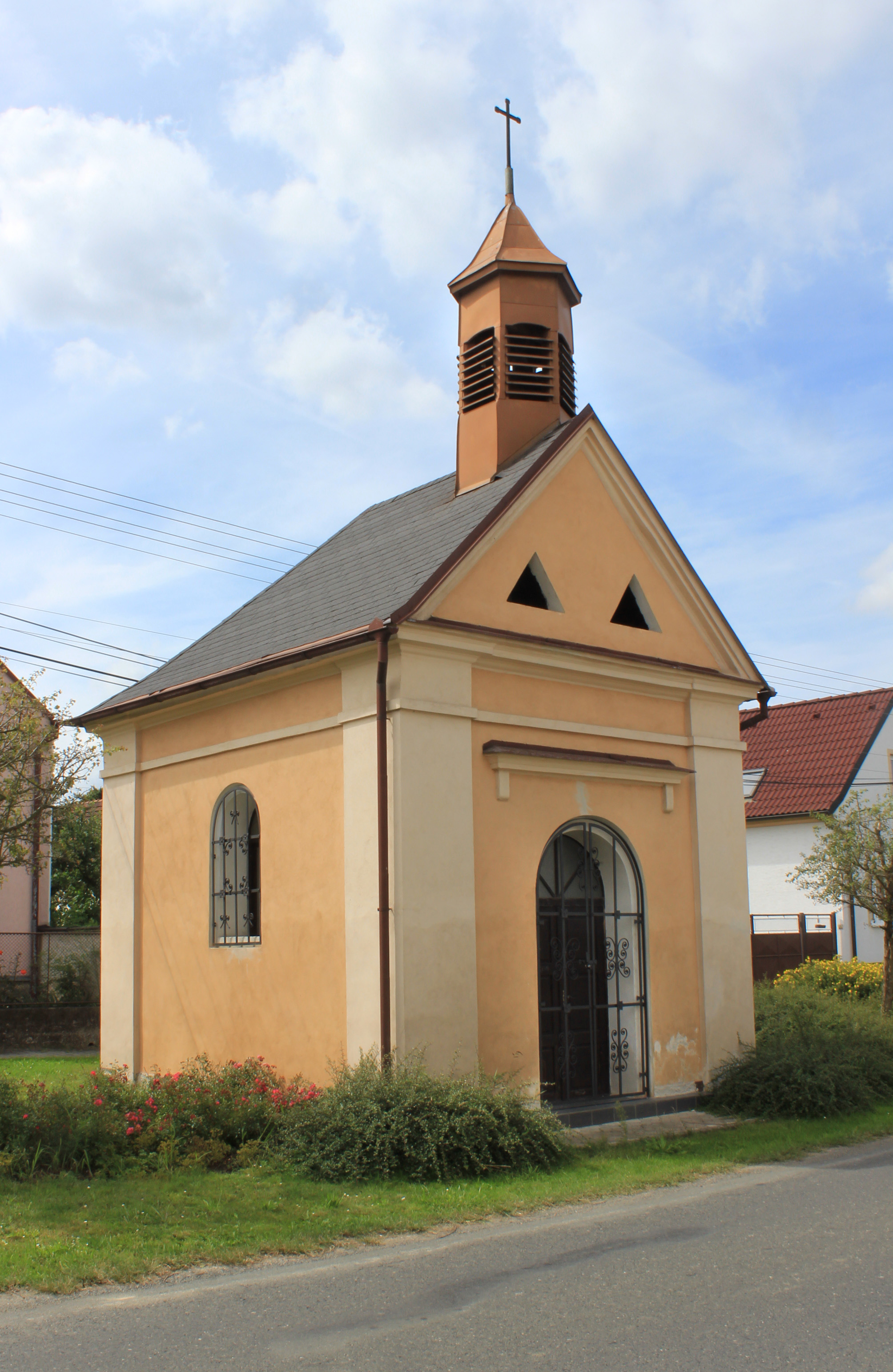 Chapel in Hlohovčice, Czech Republic.